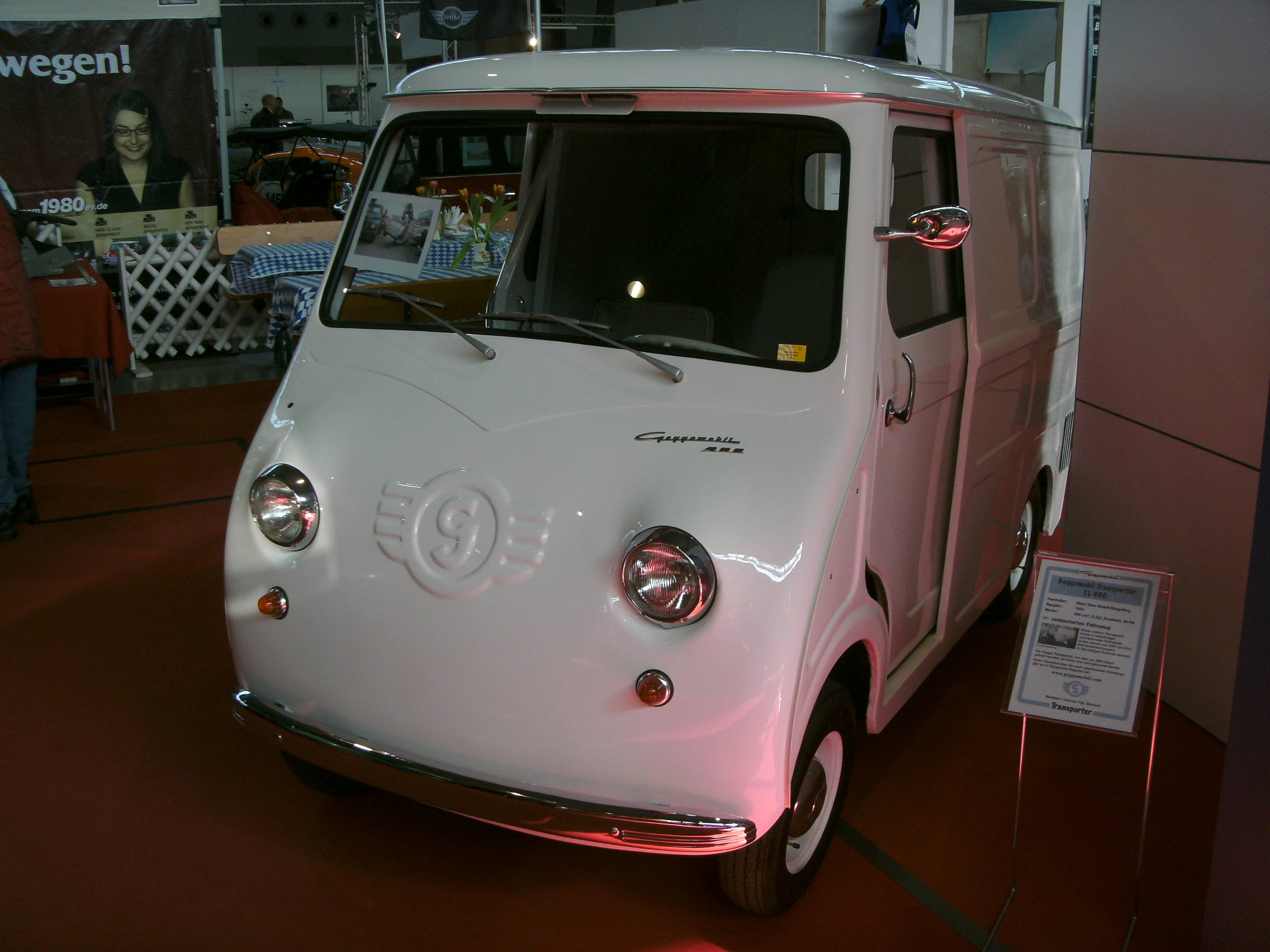 Goggomobil_TL400_Transporter at Retro Classics 2012